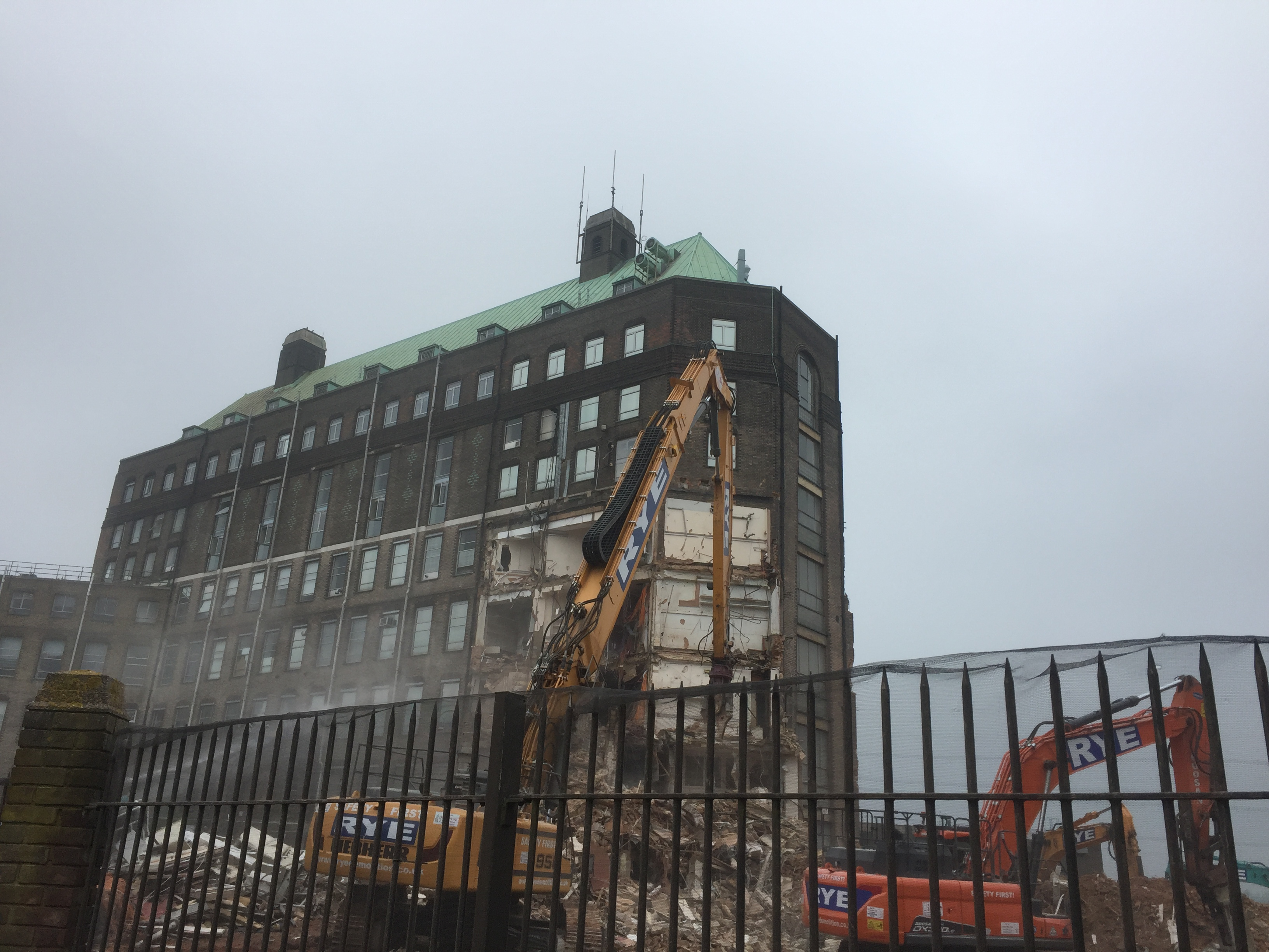 In 2018 the National Institute for Medical Research building was demolished to make way to the construction of new homes in the Mill Hill area.